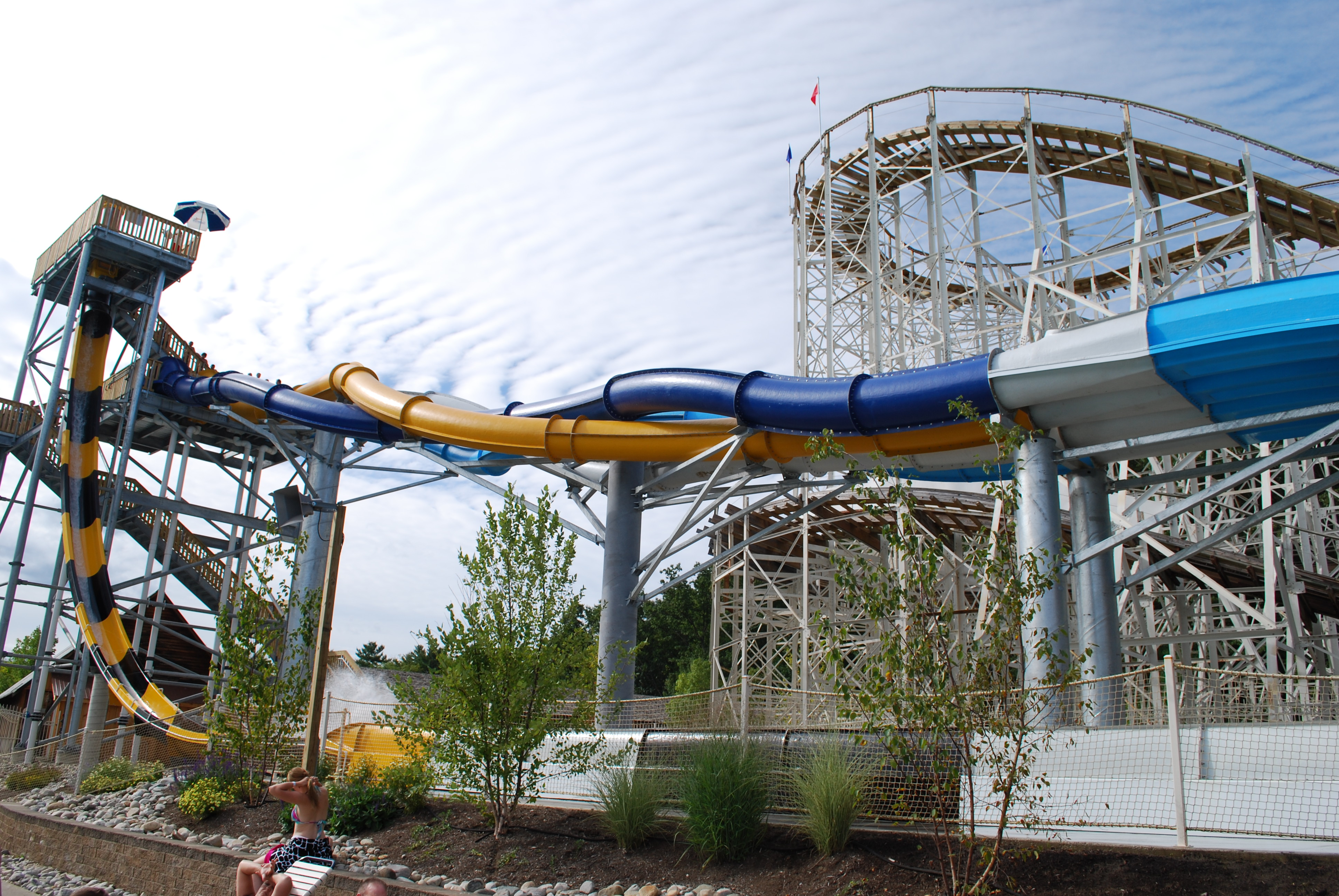 A new set of waterslides at The Great Escape for 2012. The racers are named "Twisted racer" and the freefall "Cliffhanger". Both were made by Proslides.